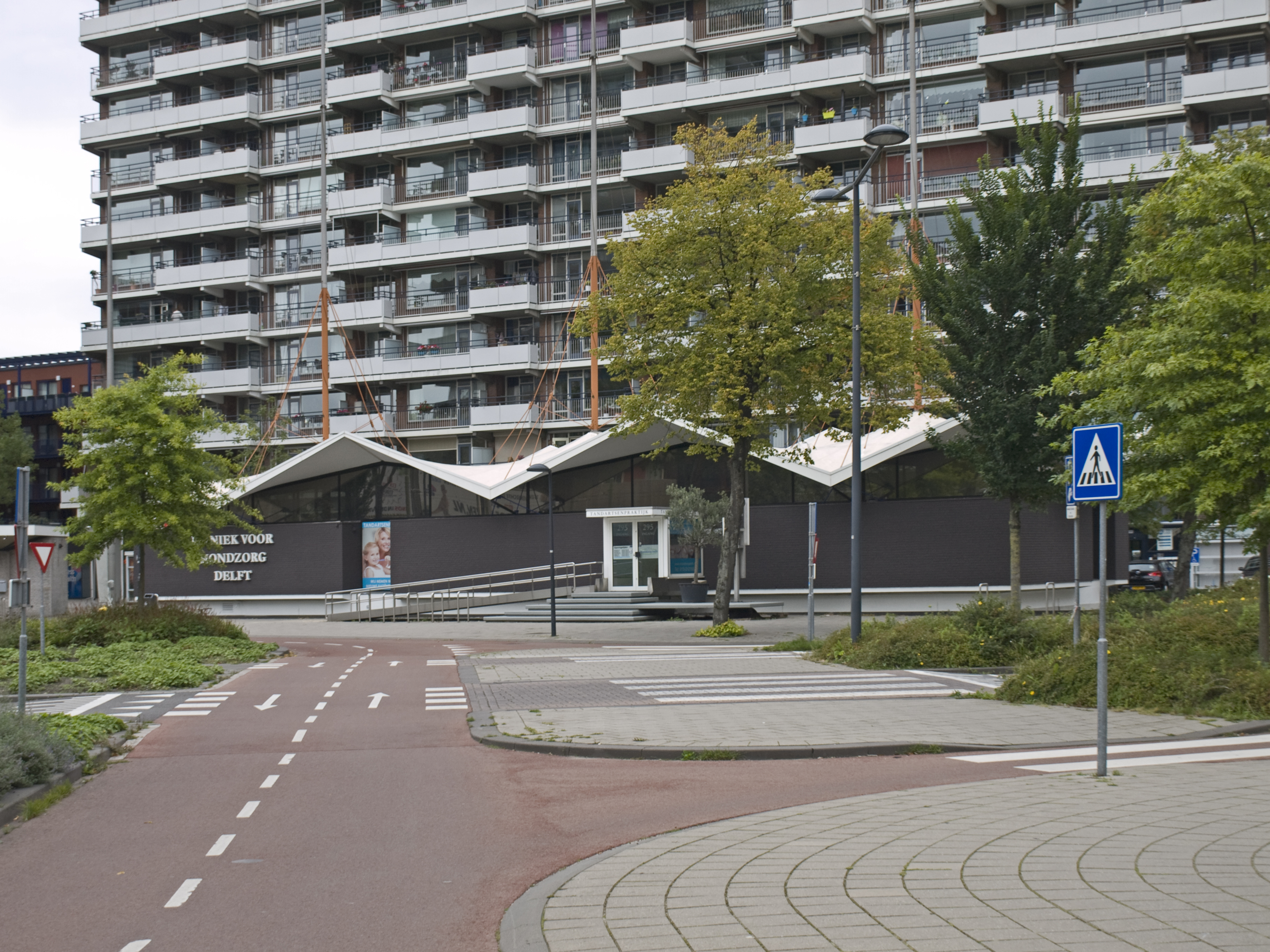 The former bank building, Papsouwselaan 295 Delft (foreground). Artemisstraat flat building in the background.